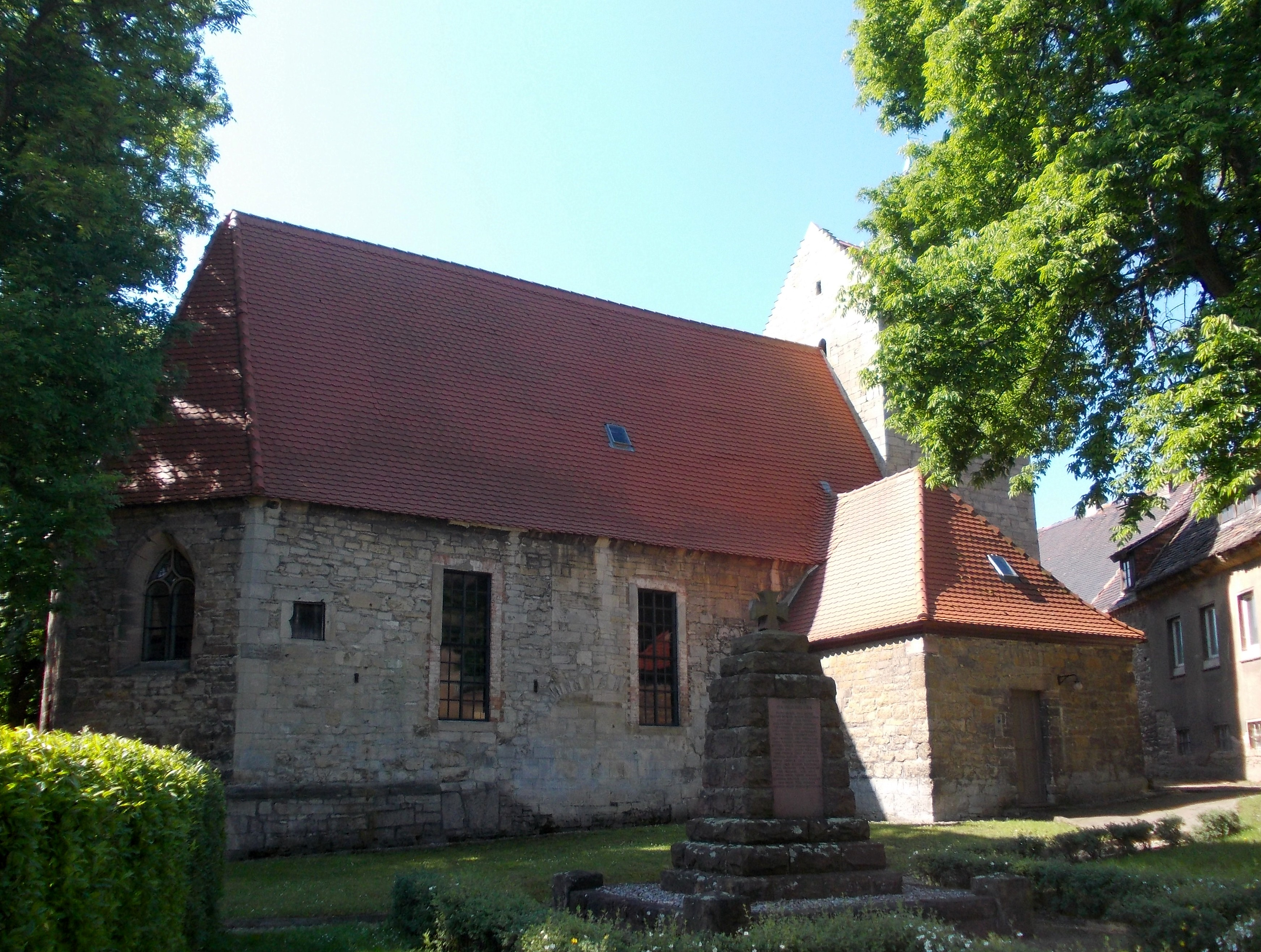 St. Peter and Paul Church in Alberstedt (Farnstädt, Saalekreis, Saxony-Anhalt)